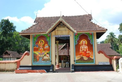 Sree Krishna Temple the Ancestral deity of Sree Sankara Acharya reinstalled by him at and Sasalam became KALADY